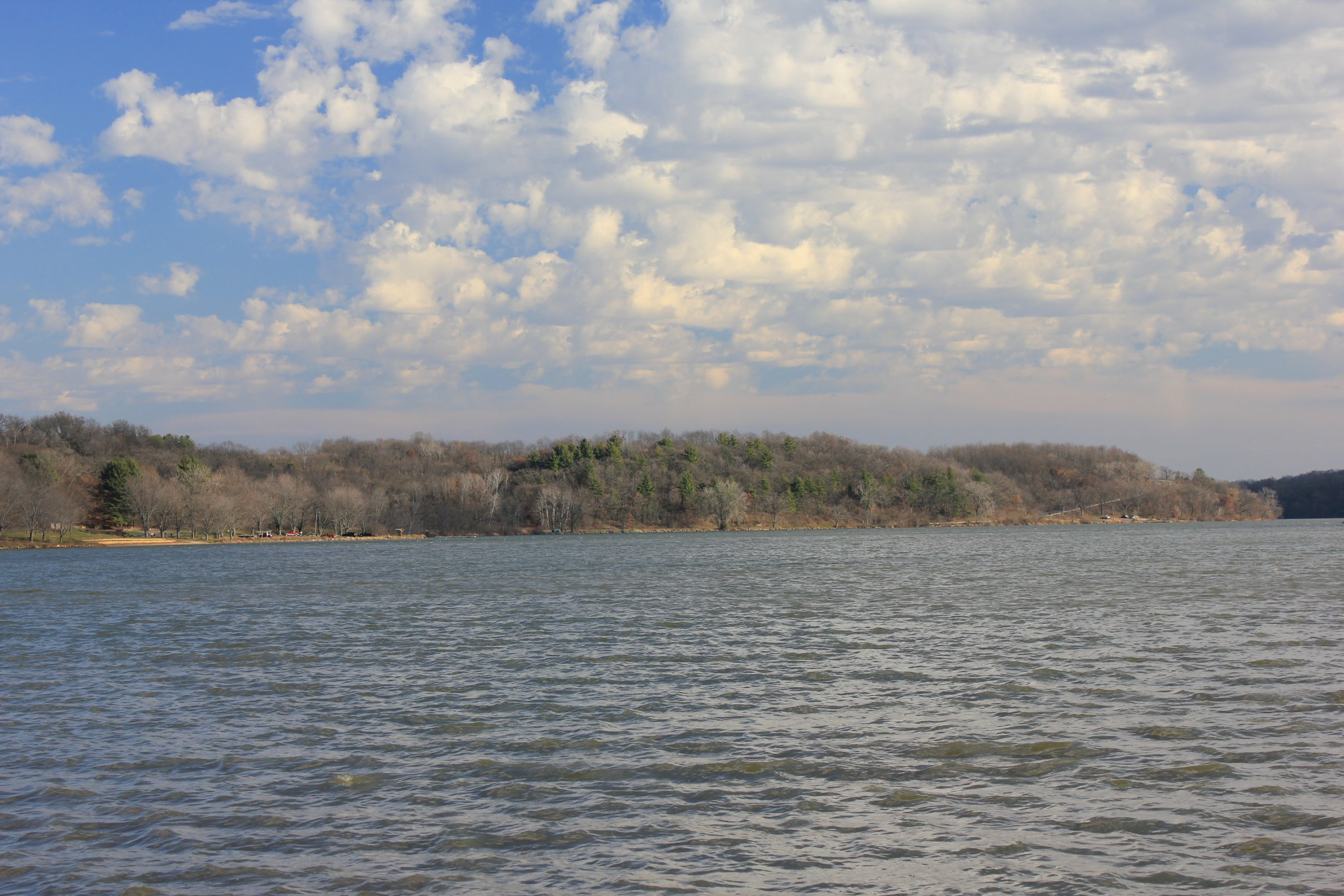 Picture of Yellowstone Lake